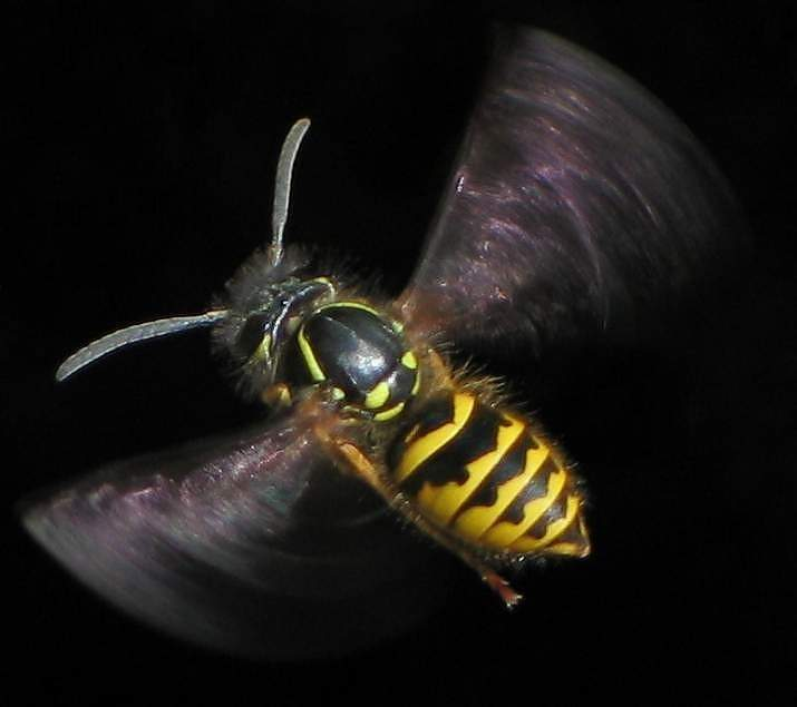 A photo of a flying Vespula vulgaris. Taken by Soebe in Northern Germany and released under GNU FDL.